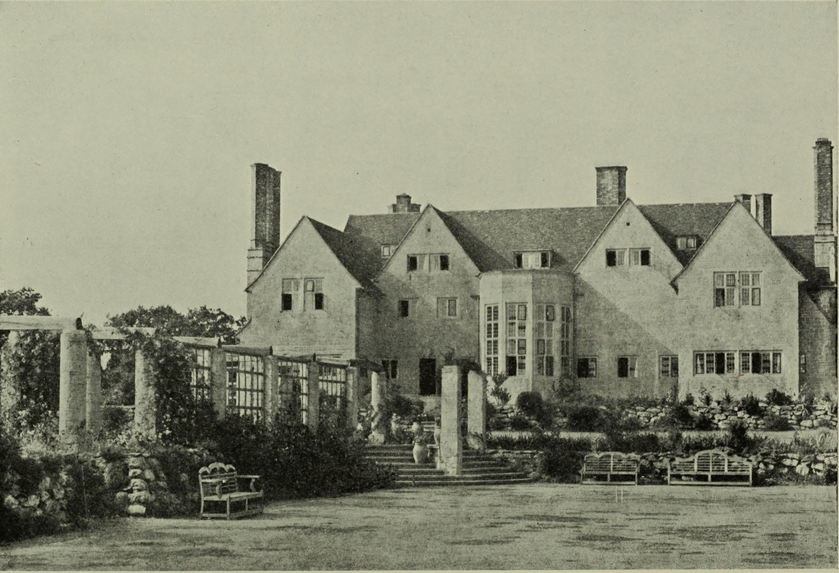 Illustration from the book Lutyens houses and gardens (1921) featuring Little Thakeham, Thakeham, Sussex, south front and pergola.